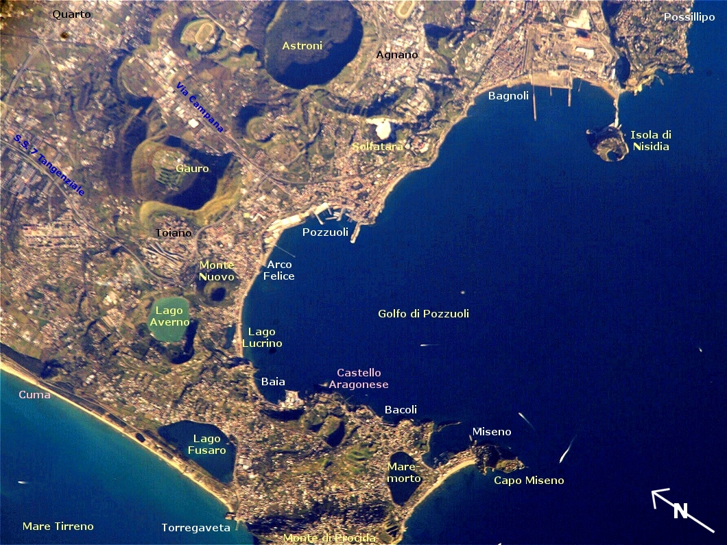 Pozzuoli and the Campi Flegrei with names. Photo taken from the ISS.